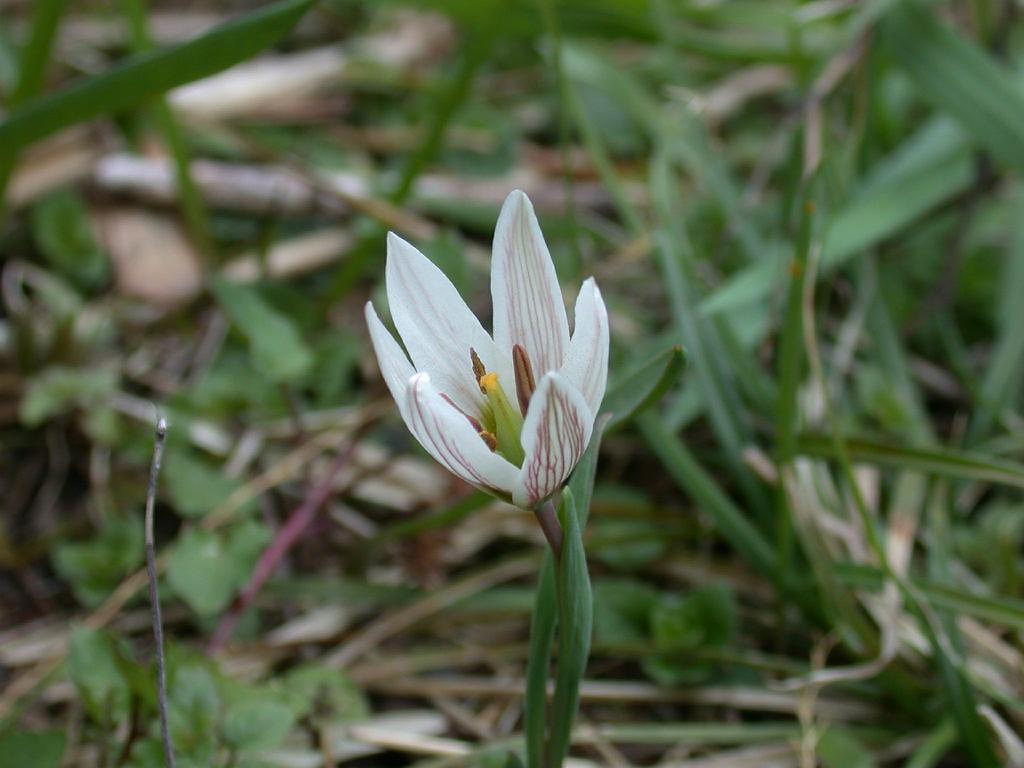 Species Amana edulis Familia Liliaceae Japanese name:Amana Date;2007,03;Tanabe city, Wakayama prefecture, Japan Author;Keisotyo